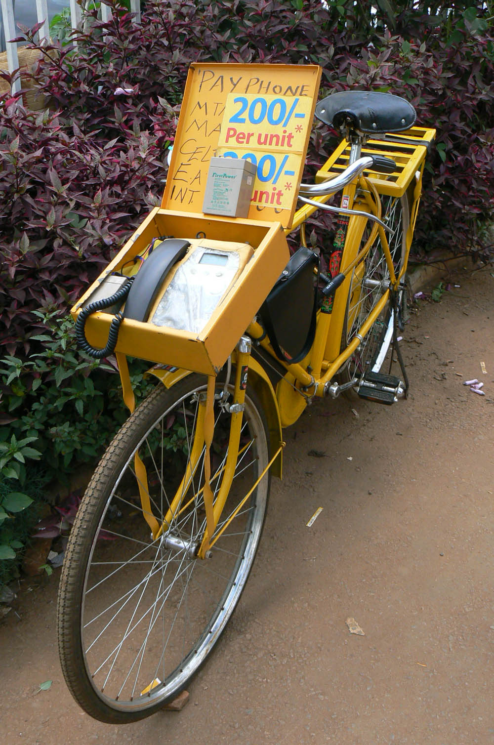 Uganda bicycle telephone booth based on GSM The "Bodafone" Originals from: Please cite "Ken Banks, "